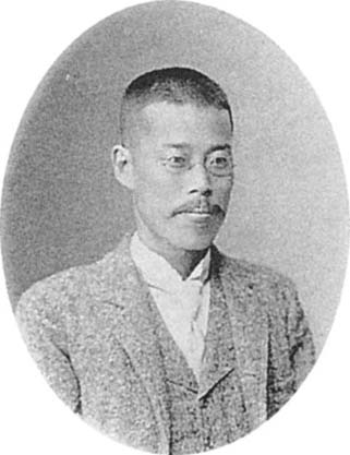 S. Hirayama, Professor of Astronomy.